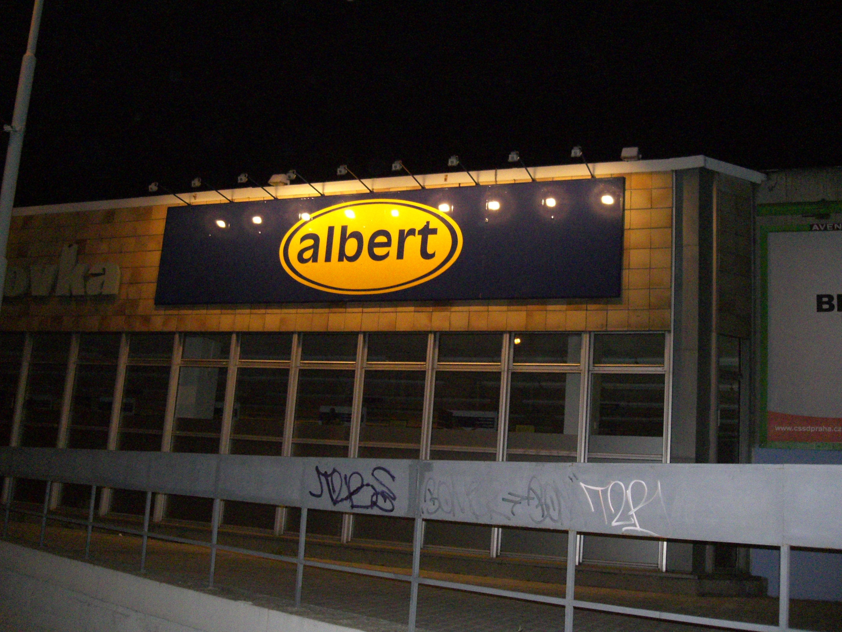 Albert shop in Žižkov, Prague, Czech Republic